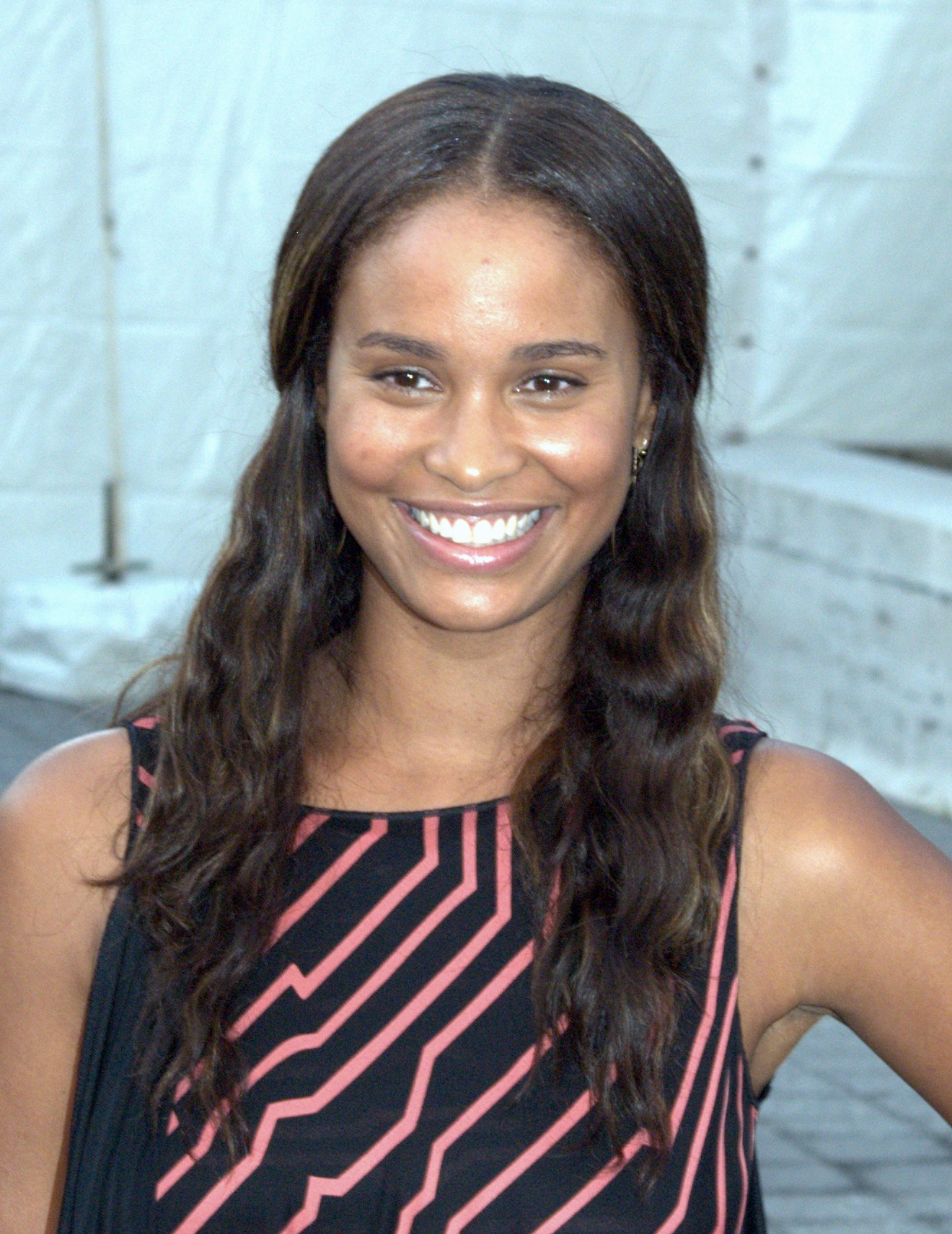 Joy Bryant at the 2009 premiere of the Metropolitan Opera in New York City. Photographer's blog post about event and photograph.